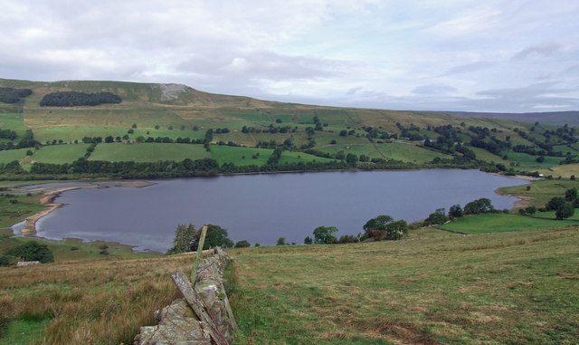 Semer Water Semer Water as seen from Stake Road at Blean West Pasture.